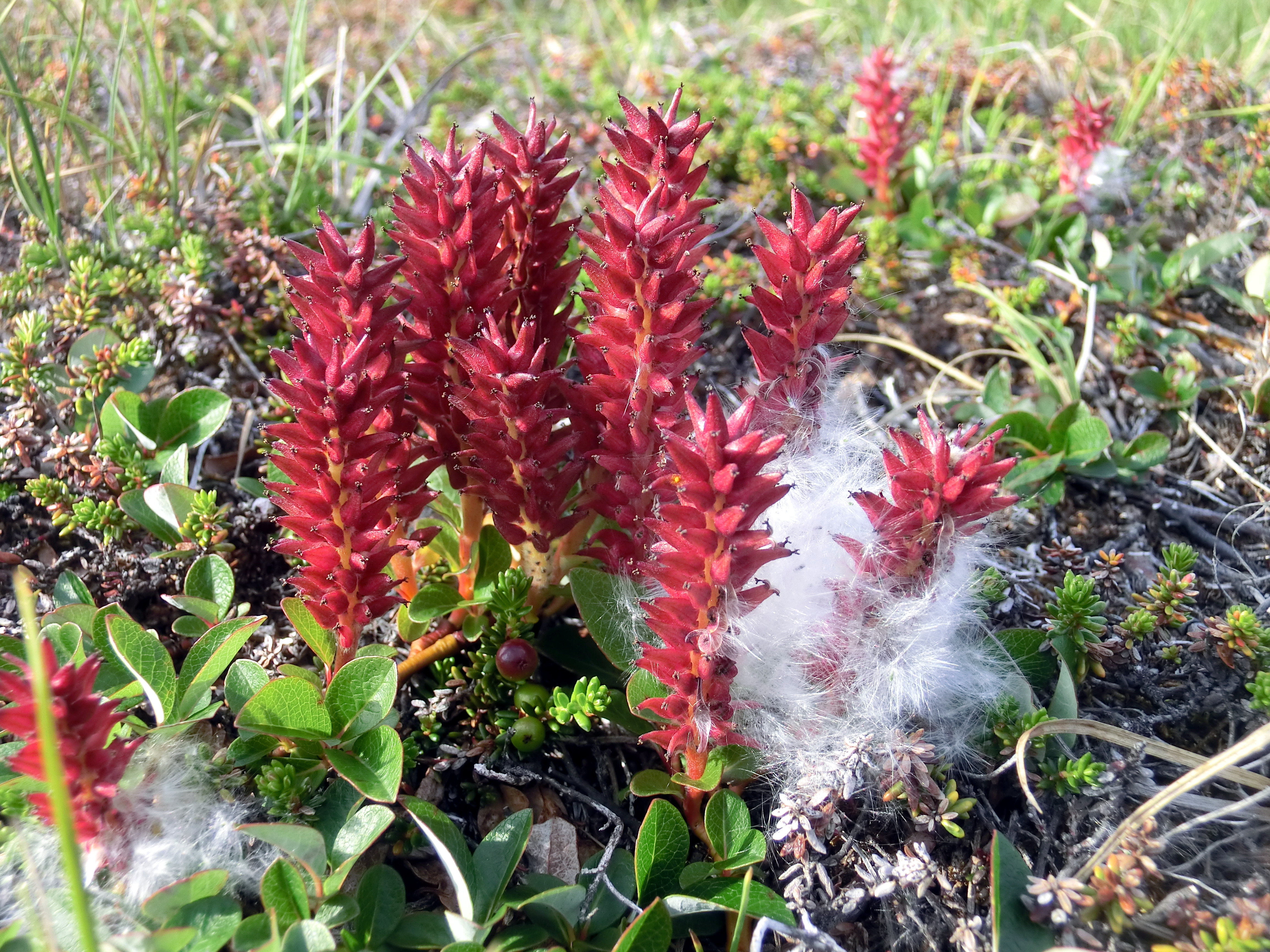 Salix polaris in Paamiut, Greenland.